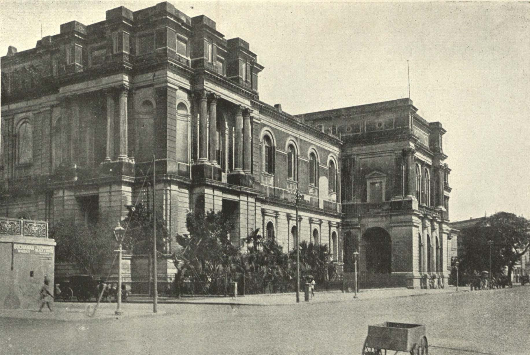 Contains a fine collection of Fossils and Minerals, a Geological Gallery, Gallery of Antiquities and Library.